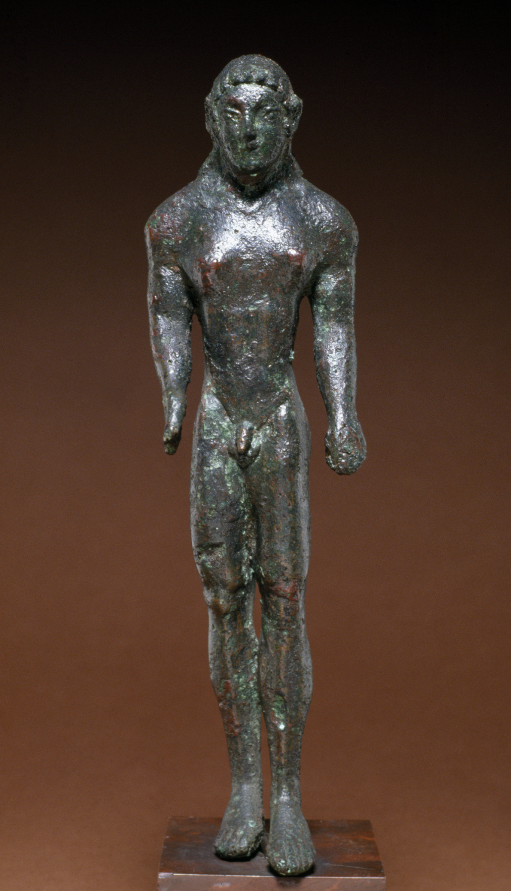 One of the most common types of figurines of the period is the nude male youth at the height of his physical beauty. Note the powerful upper chest, shoulders, and muscular thighs. His facial characteristics and his tall, narrow physique suggest that he was made in the Cyclades.